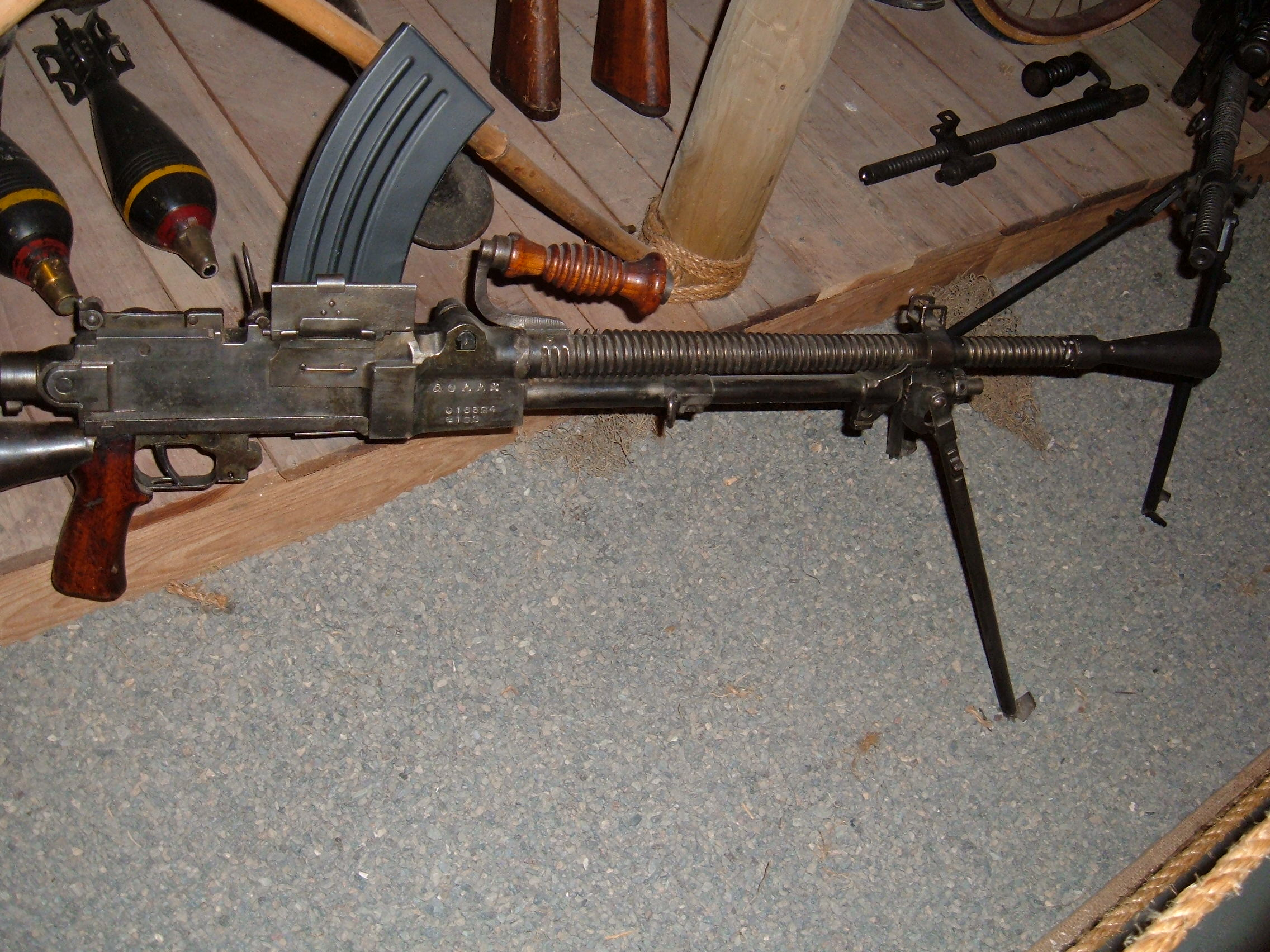 Type 99 light machine gun on display at the Sgt. Richard Penry Medal of Honor Memorial Military Museum in Petaluma, California.